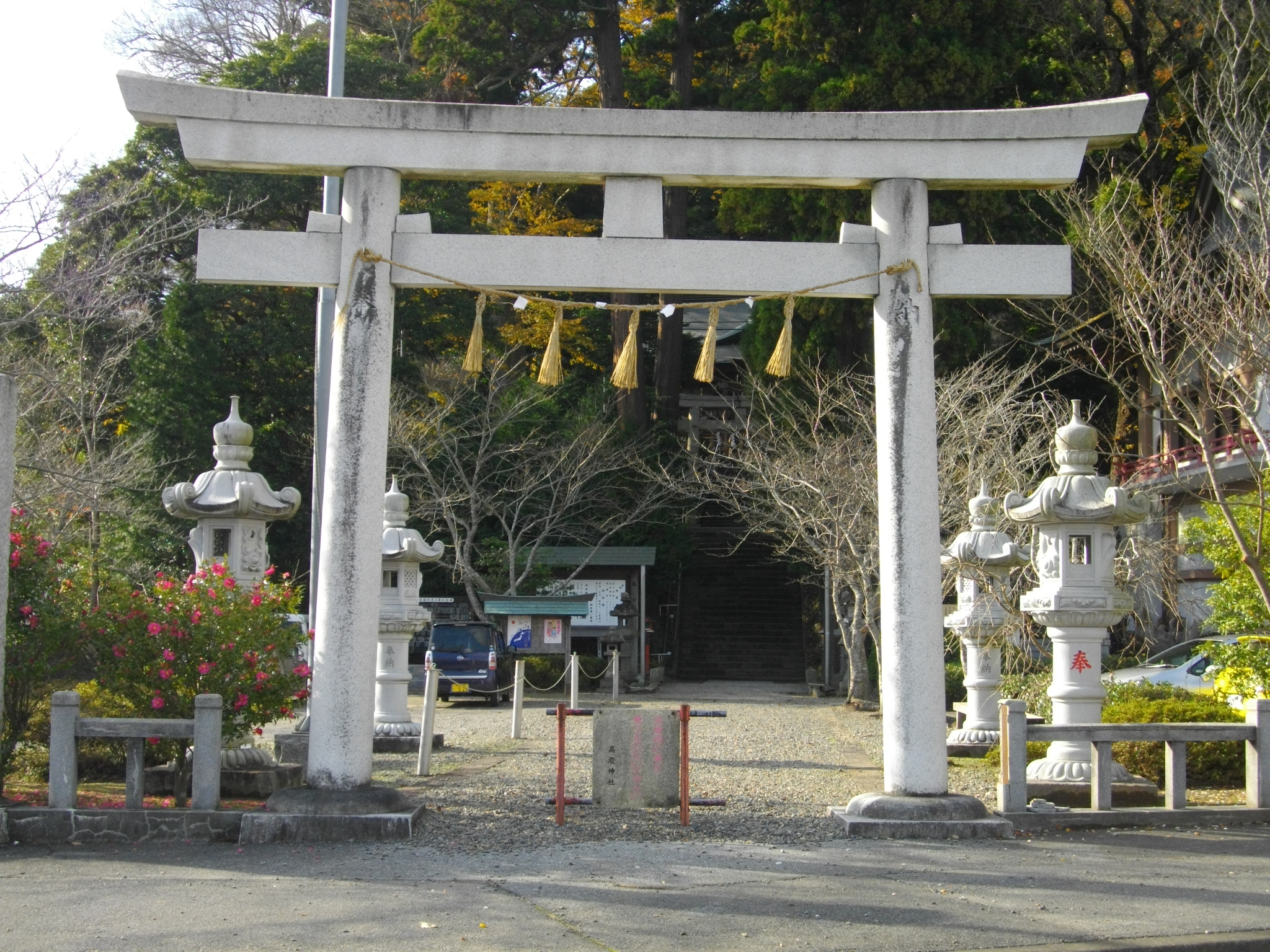 Takataki Jinja (Ichihara)